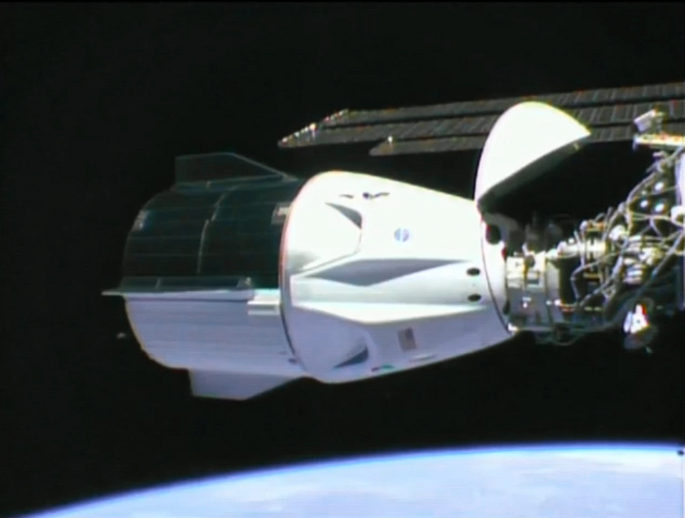 Crew Dragon docks at the International Space Station